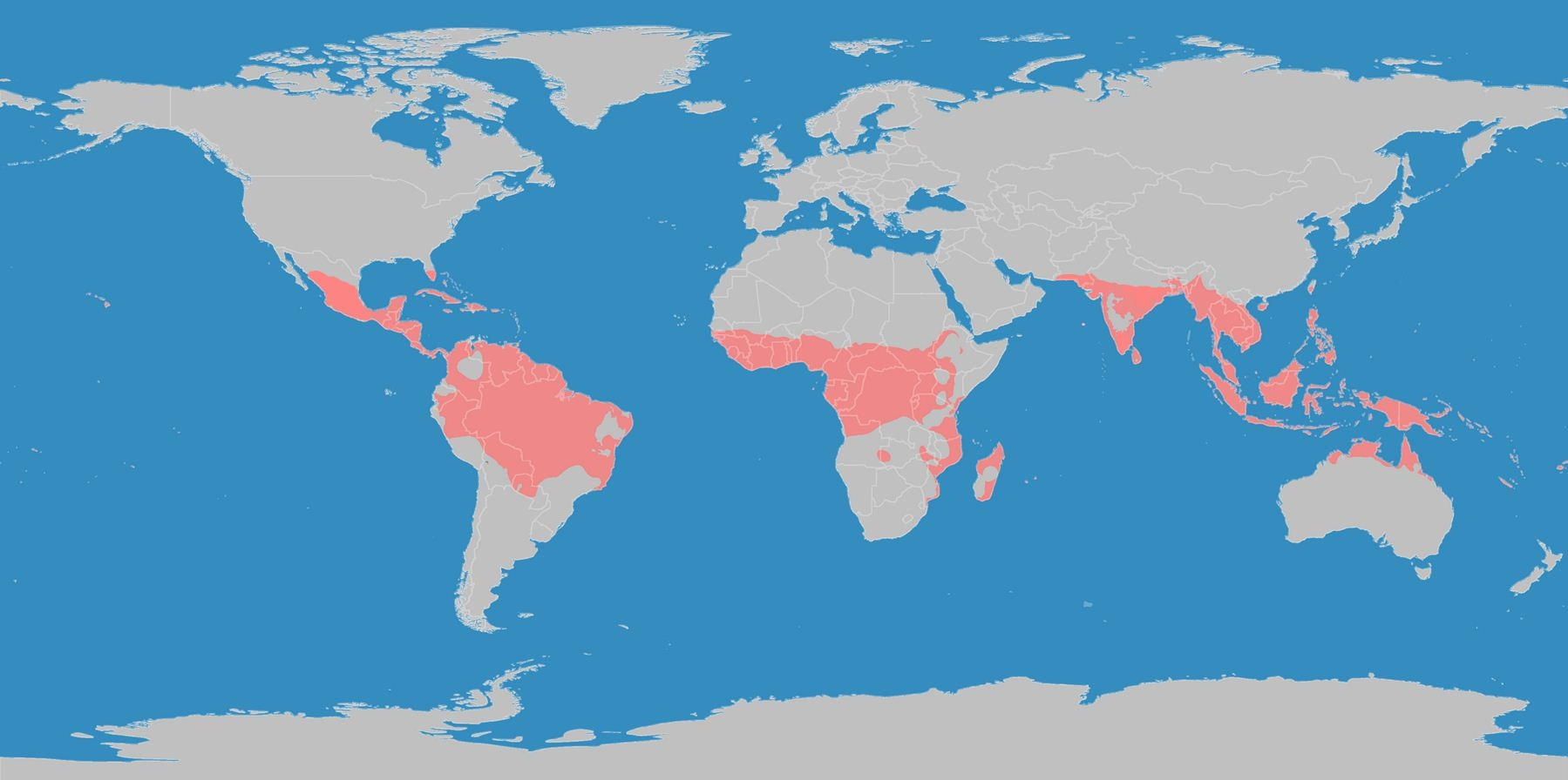 Tropic regions of the world.